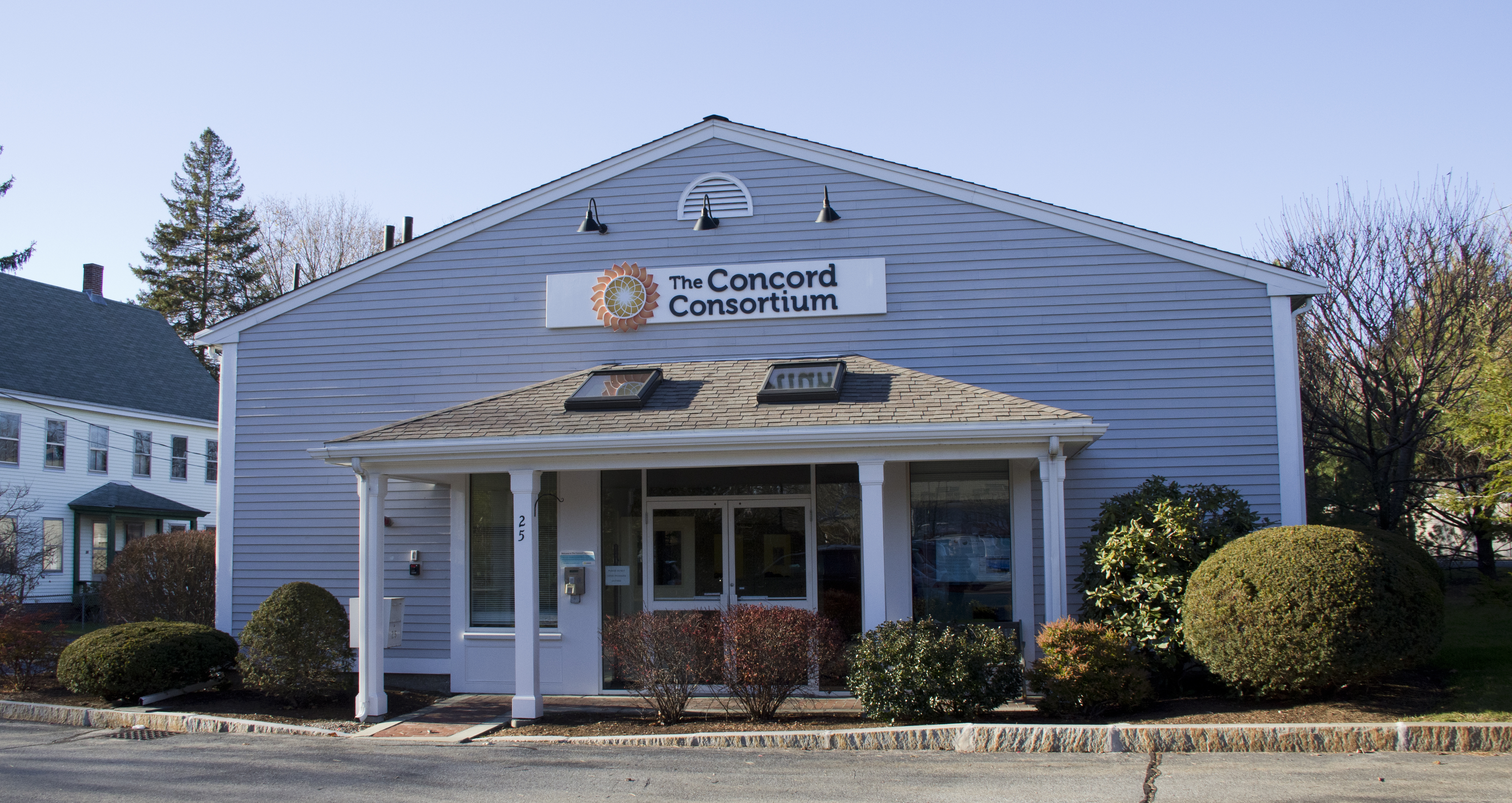 Building that houses Concord Consortium, Concord, MA.jpg Evidence: The license statement can be found online at